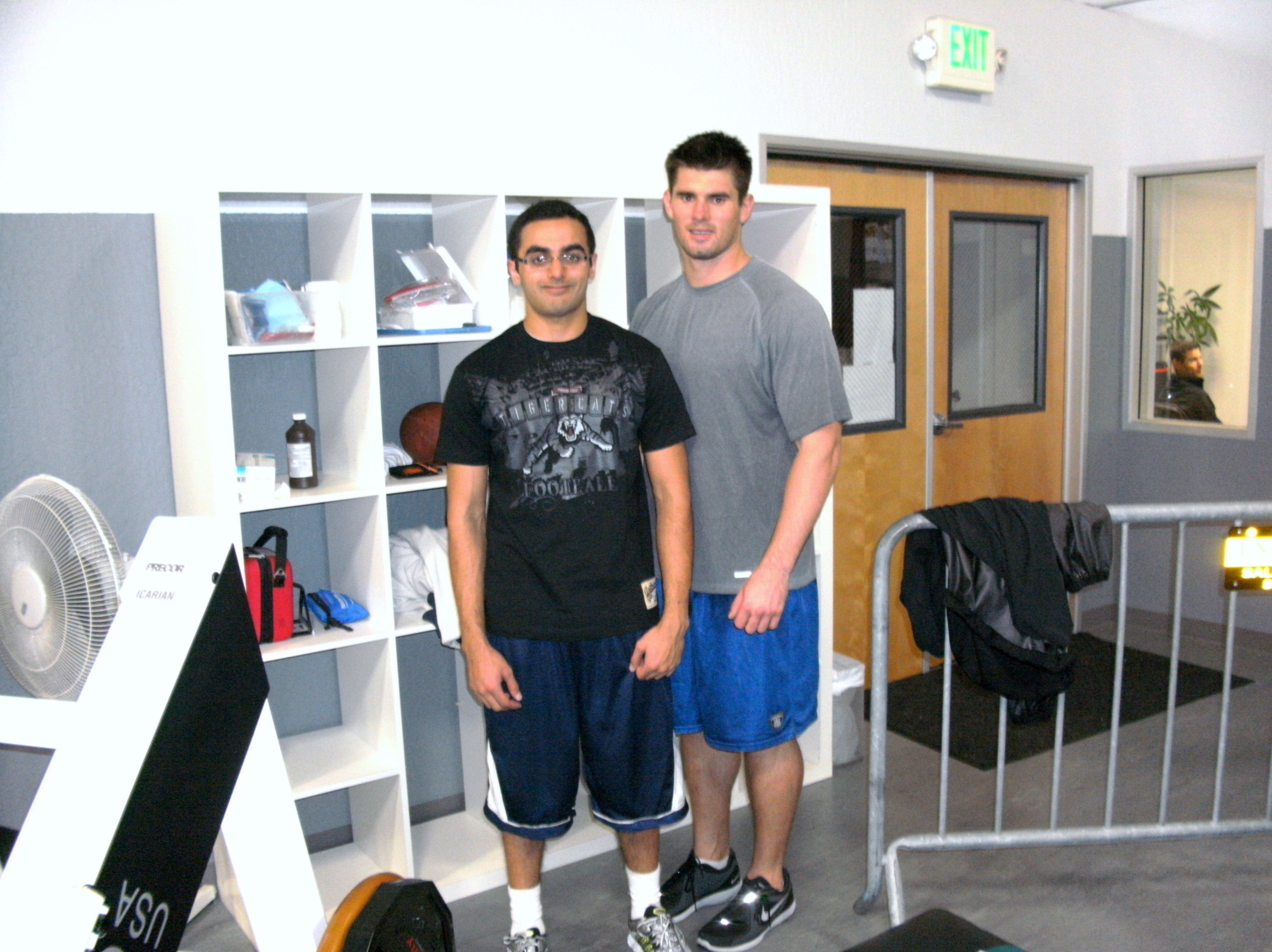 Football players Adam Tafralis and Asif Ali at Paye's Sport Performance